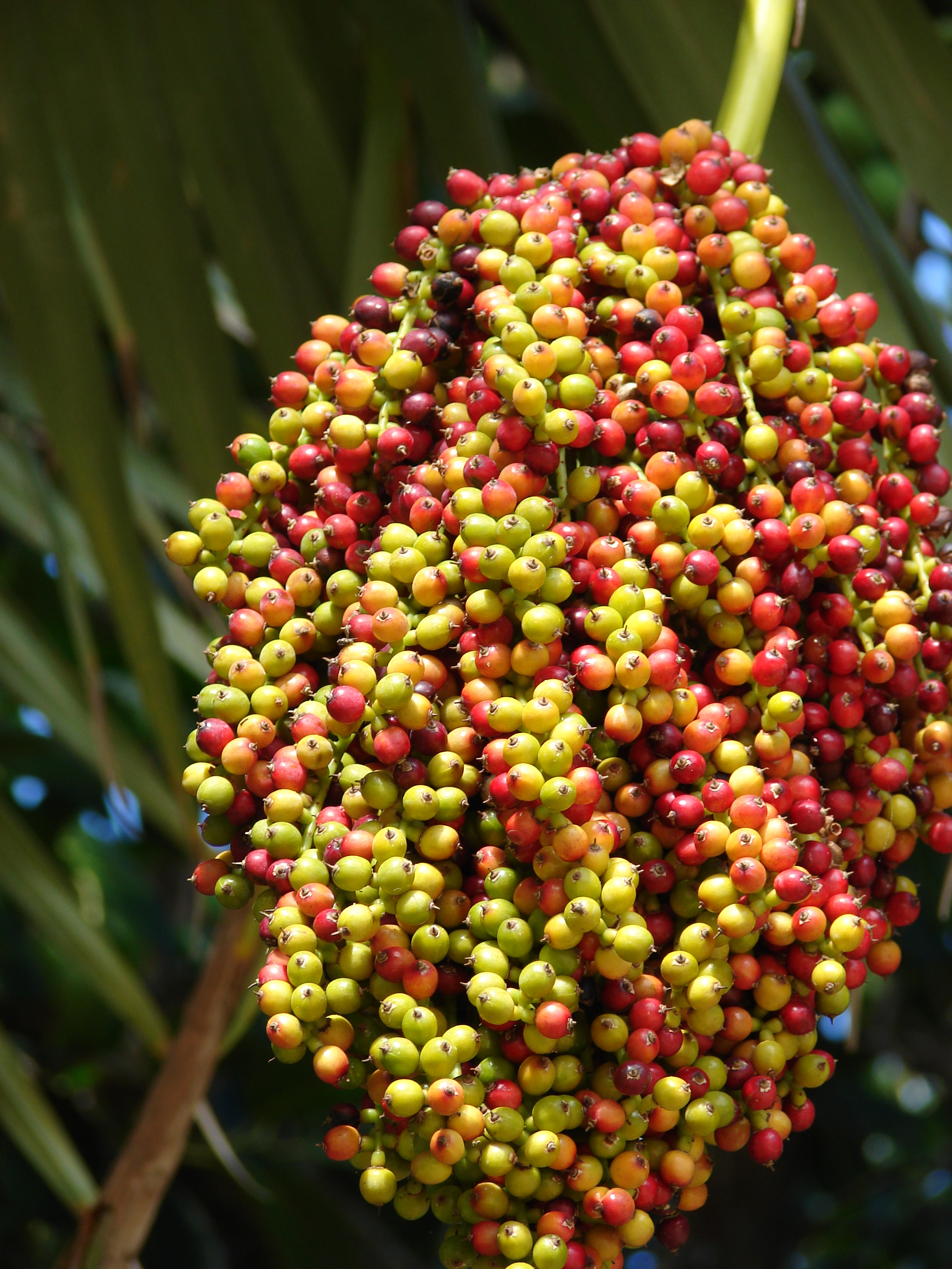 Pritchardia thurstonii (fruit). Location: Maui, Maui Nui Botanical Garden